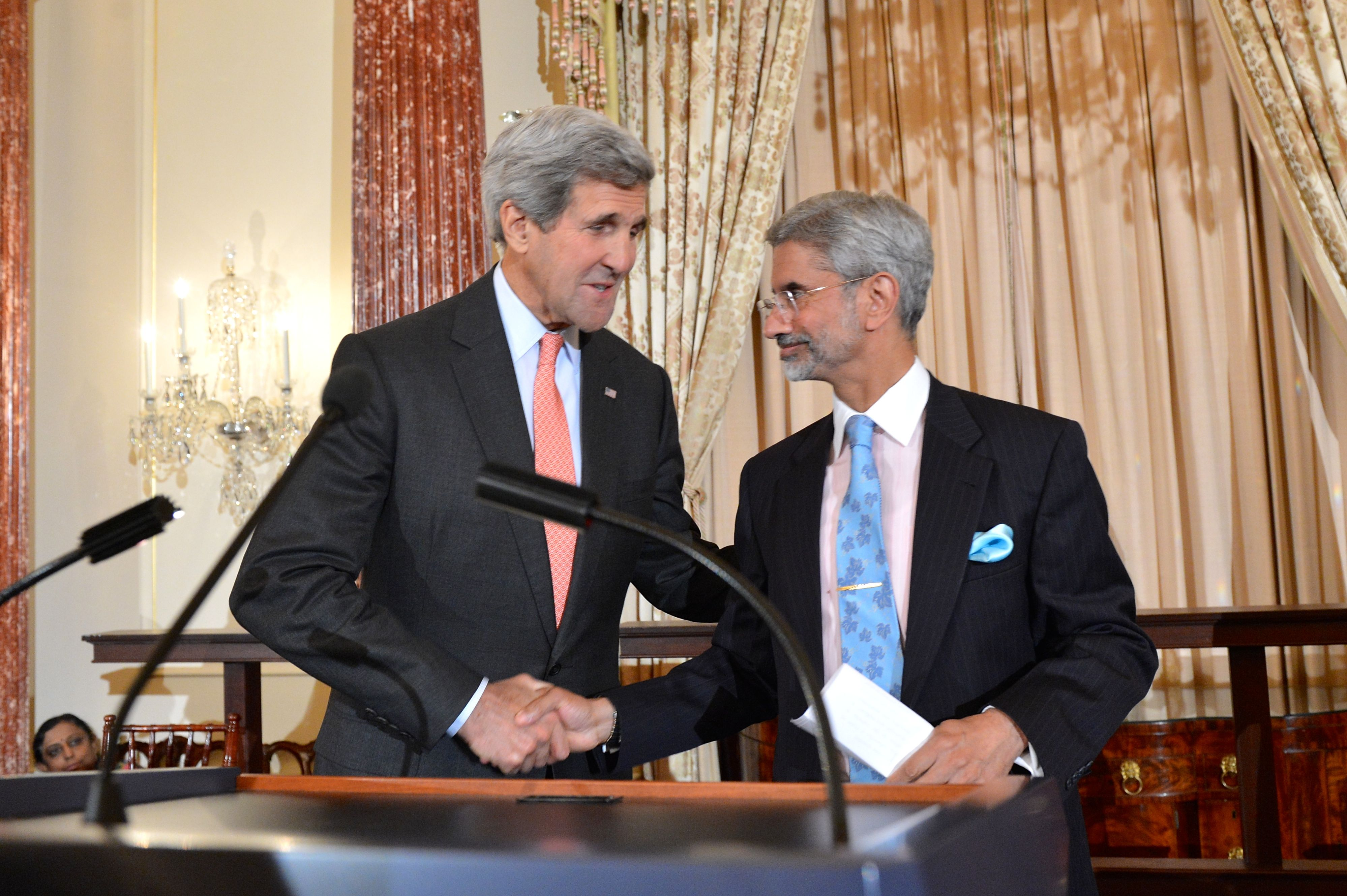 U.S. Secretary of State John Kerry shakes hands with Indian Ambassador to the U.S. Dr. S. Jaishankar after addressing guests at the U.S. Department of State's Diwali Celebration in Washington, D.C., on October 23, 2014. [State Department photo/ Public Domain]Politicians shaking hands with diplomats